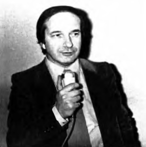 Italian journalist Ezio Luzzi